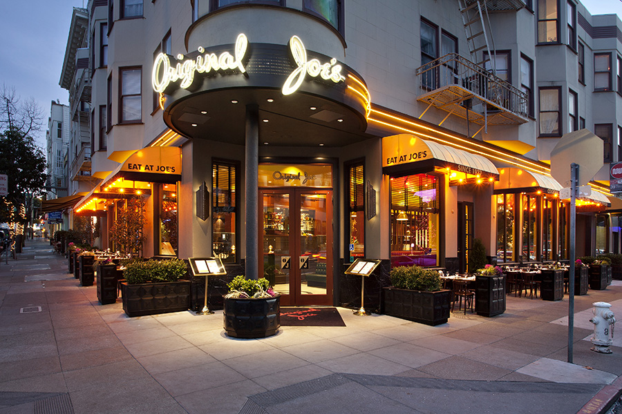 Exterior image of Original Joe's North Beach San Francisco location.